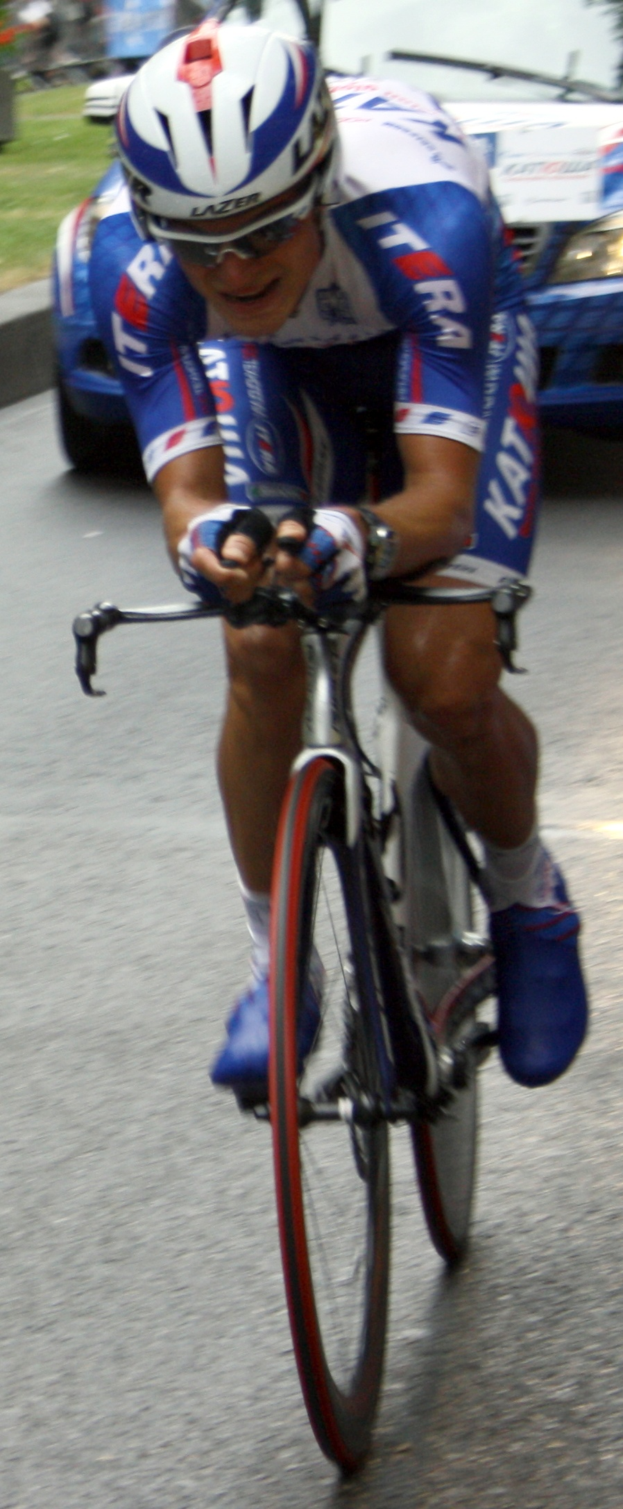 Eduard Vorganov at the prologue of the 2010 Tour de France in Rotterdam